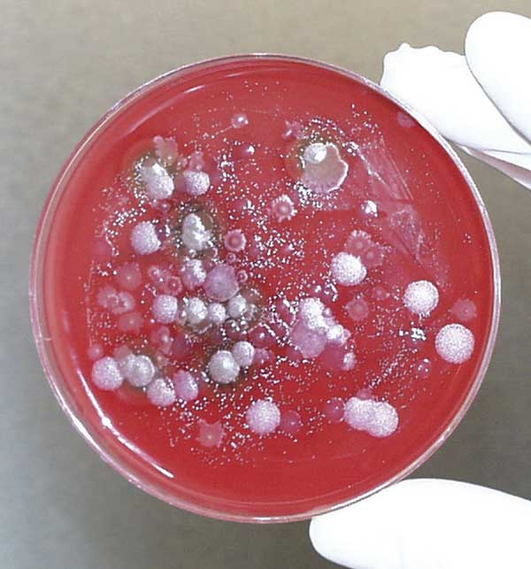 Bacillus anthracis Bioterrorism Incident, Kameido, Tokyo, 1993, Fluid collected from the Kameido site cultured on Petri dishes to identify potential Bacillus anthracis isolates.